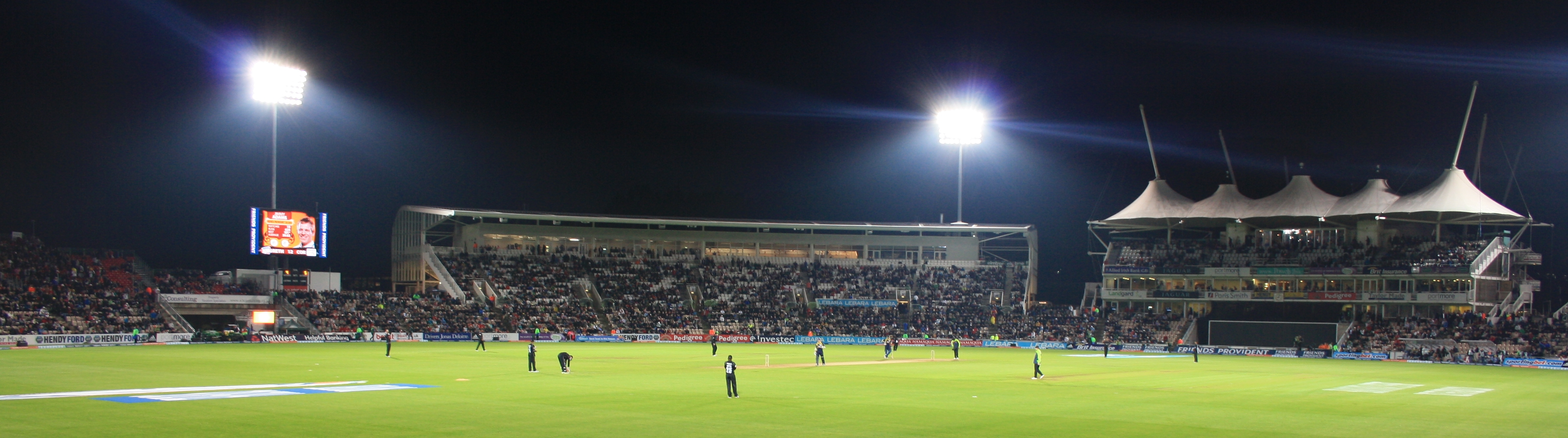 The Rose Bowl, Southampton floodlit for the final of the 2010 Friends Provident t20. Hampshire became the first team to win Twenty20 Finals Day on their home ground, overcoming Somerset in the final.